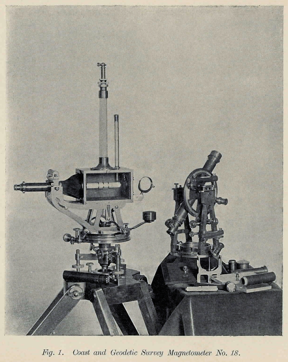 Plate XV (Instruments Used in Magnetic Observations), Figure 1, of 1897 publication called Maryland Geological Survey Volume One, with caption "Coast and Geodetic Survey Magnetometer No. 18."